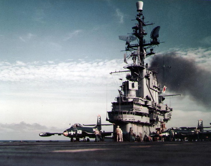 The U.S. Navy aircraft carrier USS Intrepid (CVA-11) prepares to launch a McDonnell F2H-2 Banshee of Fighter Squadron VF-44 Hornets from the starboard catapult, June 1955. VF-44 was assigned to Carrier Air Group 4 (CVG-4) aboard the Intrepid for a deployment to the Mediterranean Sea from 28 May to 22 November 1955.